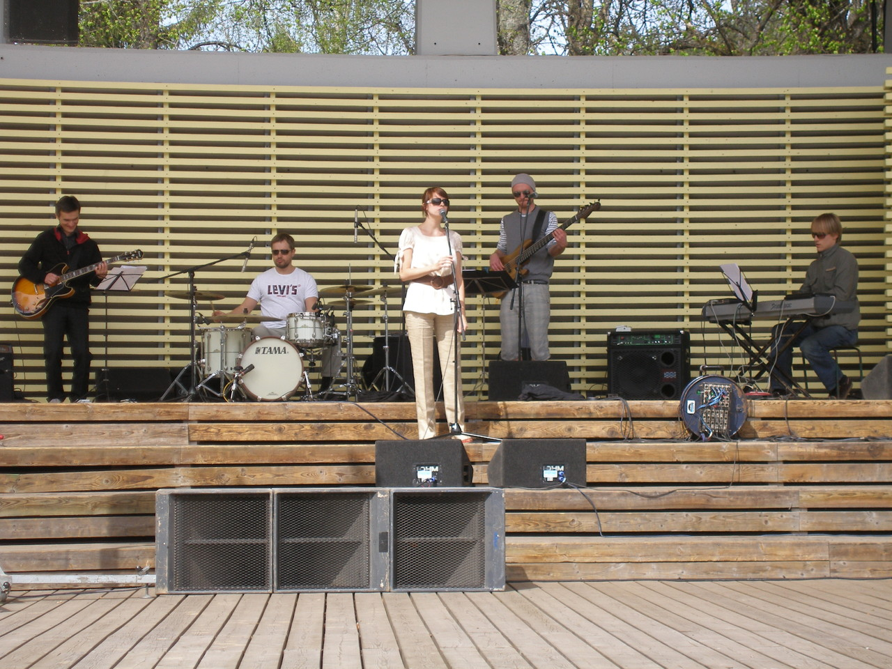 Liisi Koikson at her concert.